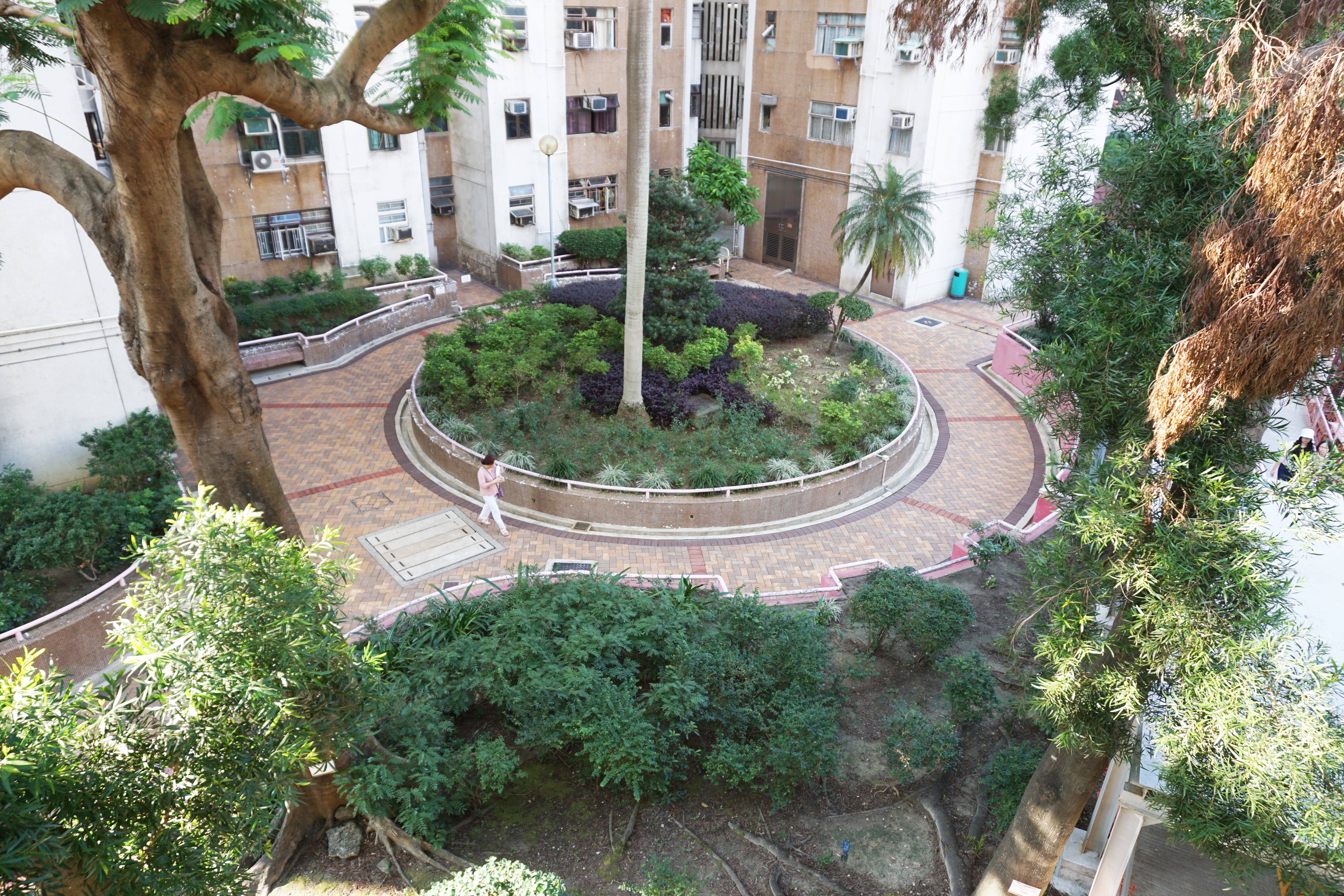 Yuk Po Court in Sheung Shui, Hong Kong.